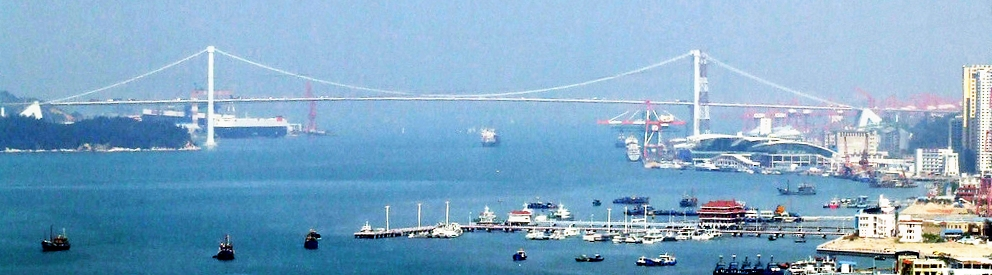 This version has been rotated, contrast and exposure adjusted, and a streak across the picture (a power line?) has been photo-shopped out. The image has been cropped to emphasize the bridge.